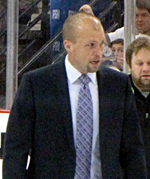 Penguins Assistant Coach Mike Yeo during Pittsburgh's triple overtime loss to the Ottawa Senators in Game 5 of their first round playoff matchup, April 22, 2010 at Mellon Arena in Pittsburgh, PA.